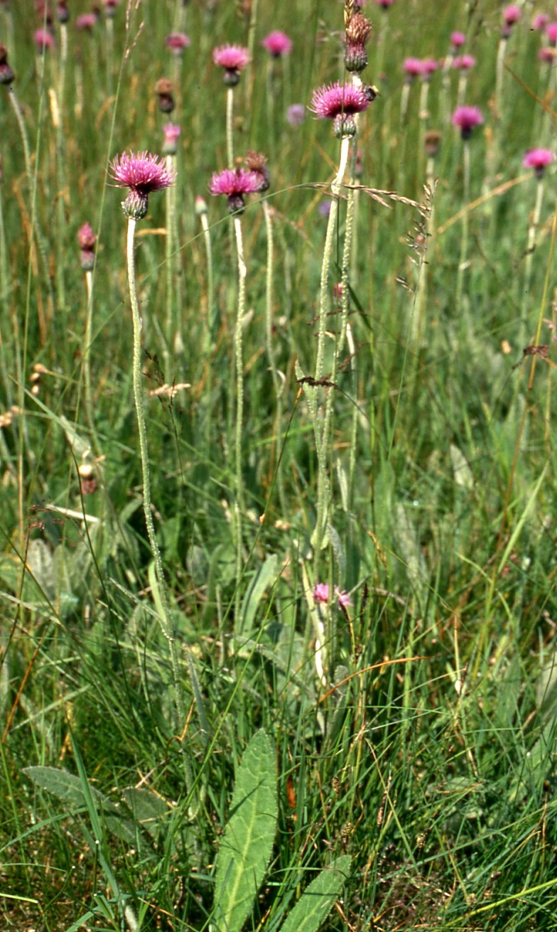 Flowering plants of Cirsium dissectum.